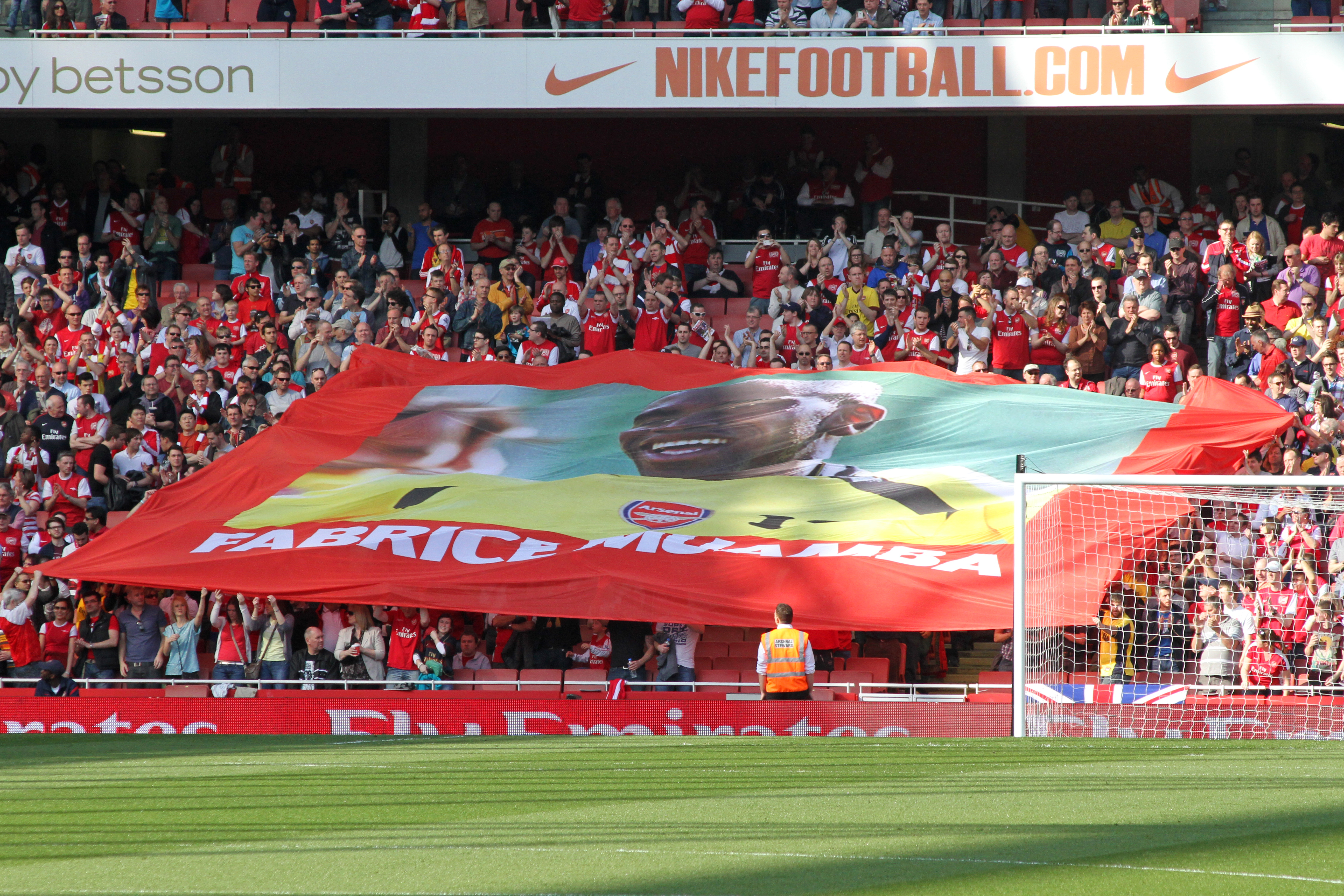 Fabrice was previously an Arsenal player, and the game began with this tribute.